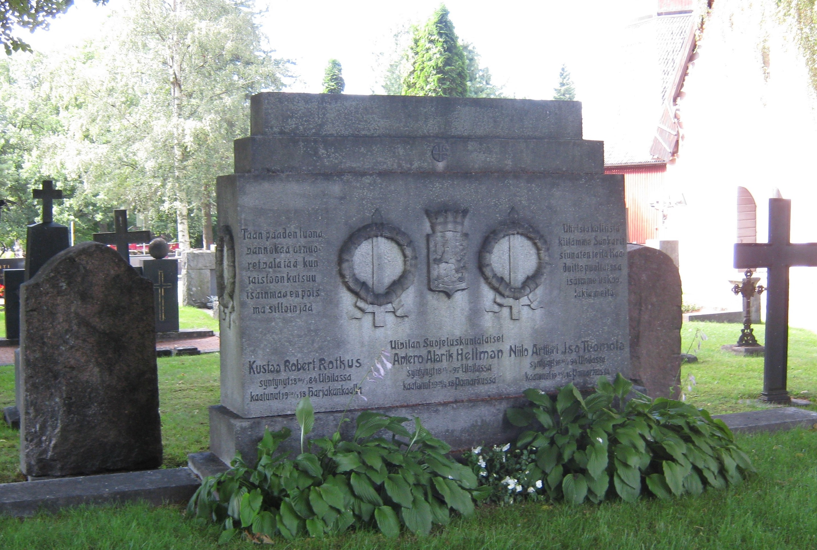 Ulvila Church. Grave of three White Guard fighters killed in the 1918 Finnish Civil War battles of Harjakangas and Pomarkku.